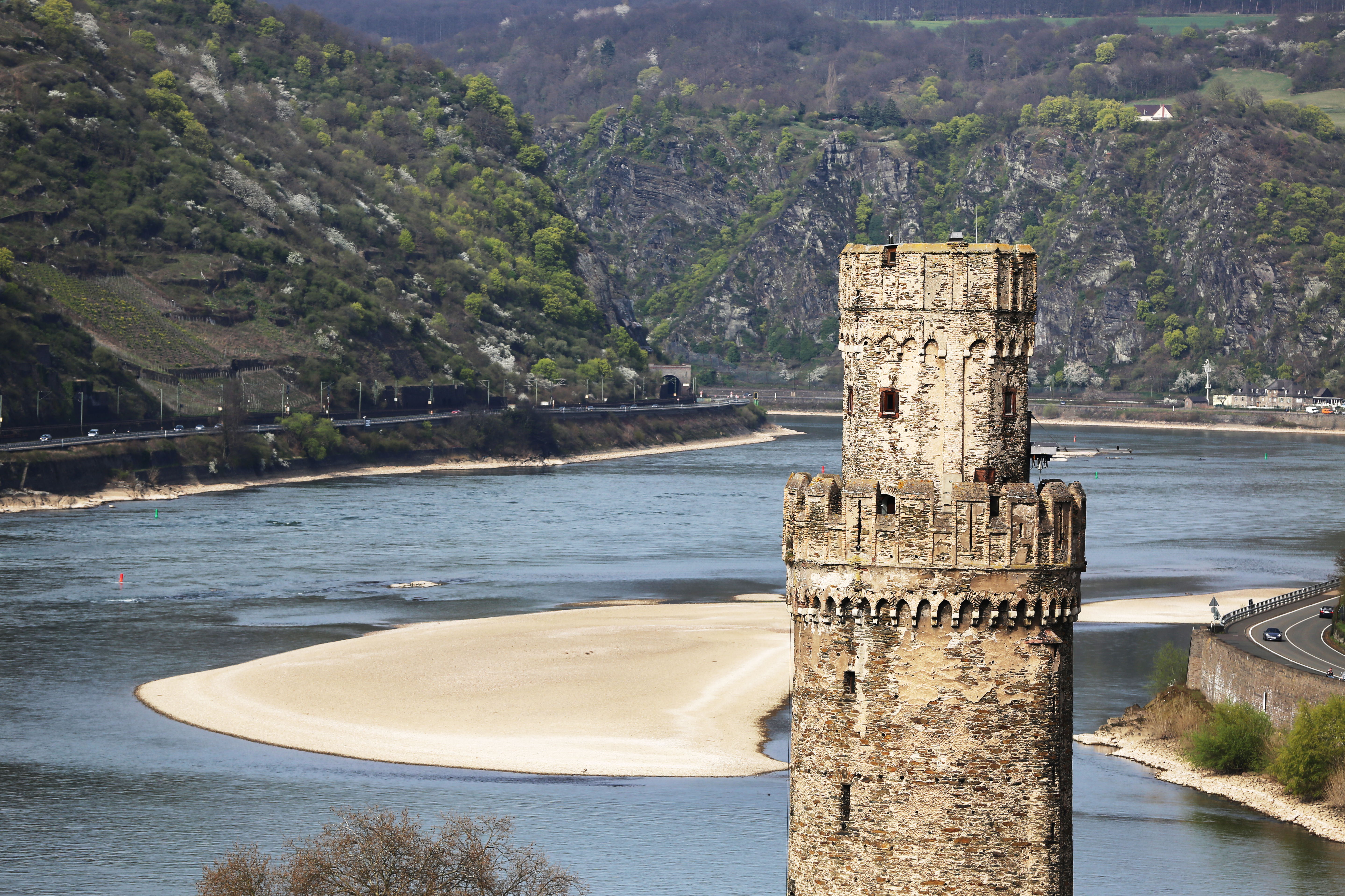 View of Ochsenturn a mediaval tower in Oberwesel, Rhine Valley/Germany